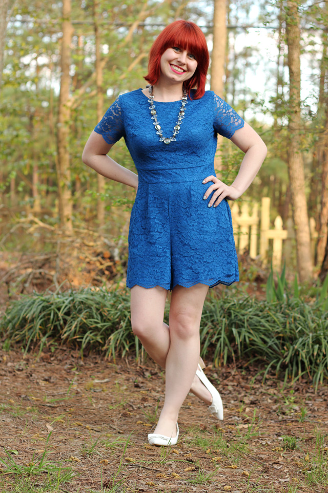 Blue Lace New York & Company Romper with Pointed White Bow Shoes Model